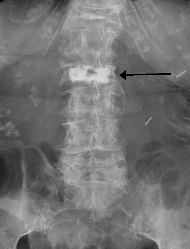 A plain Xray of a person who has undergone vertebroplasty